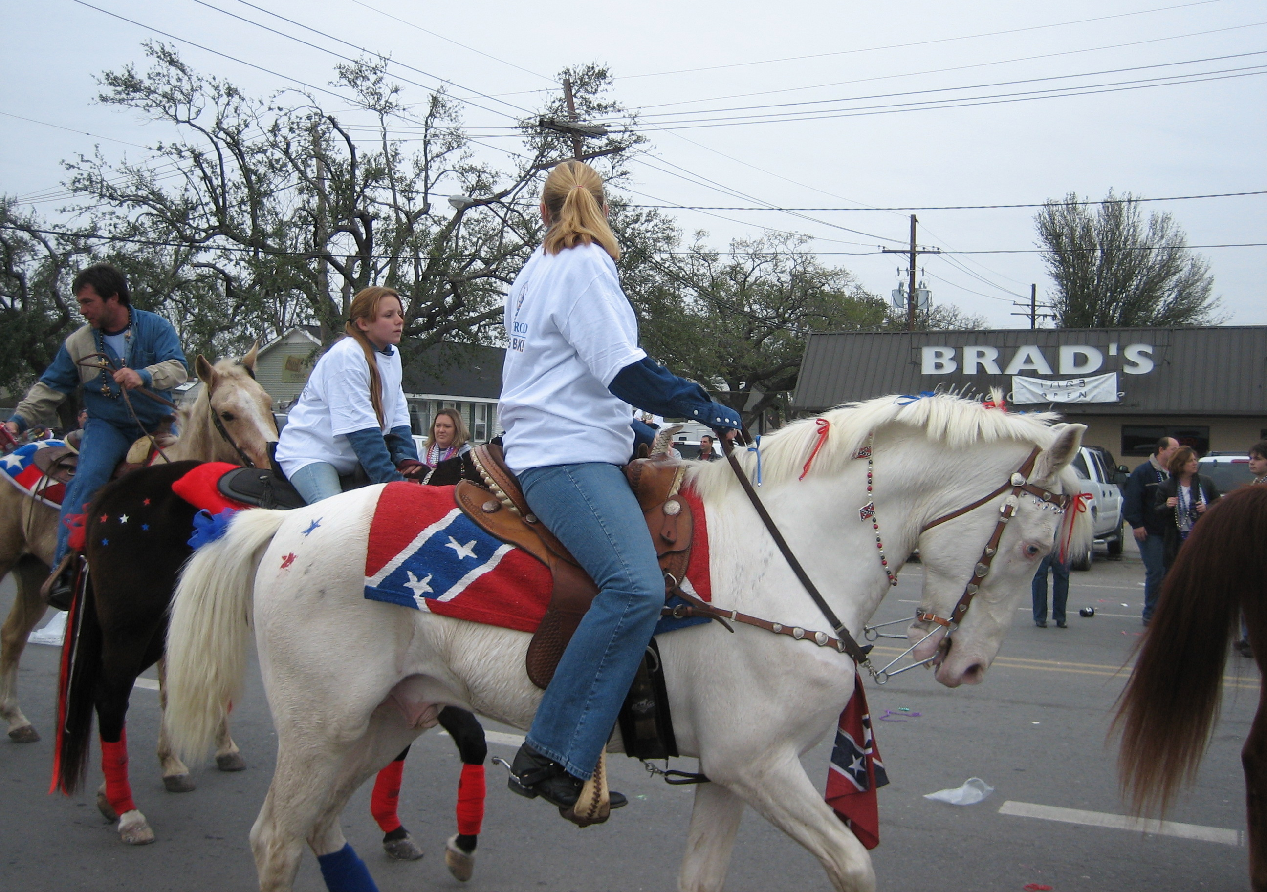 Knights of Nemesis parade, Chalmette, 2006